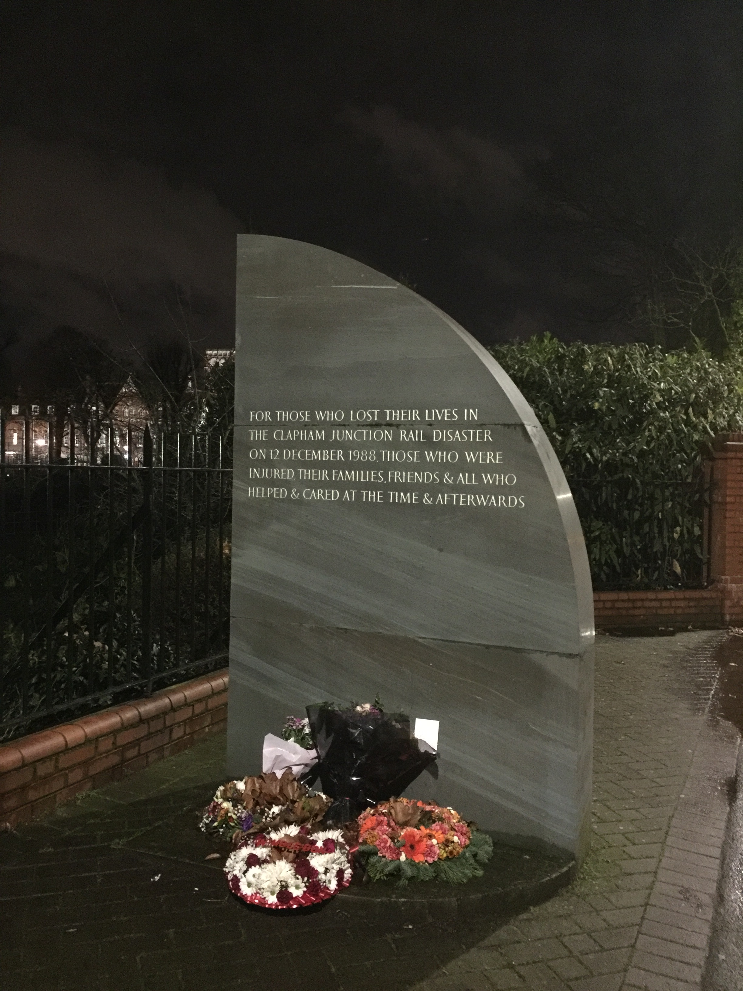 It's a memorial of a disaster that occurred near Clapham Junction.